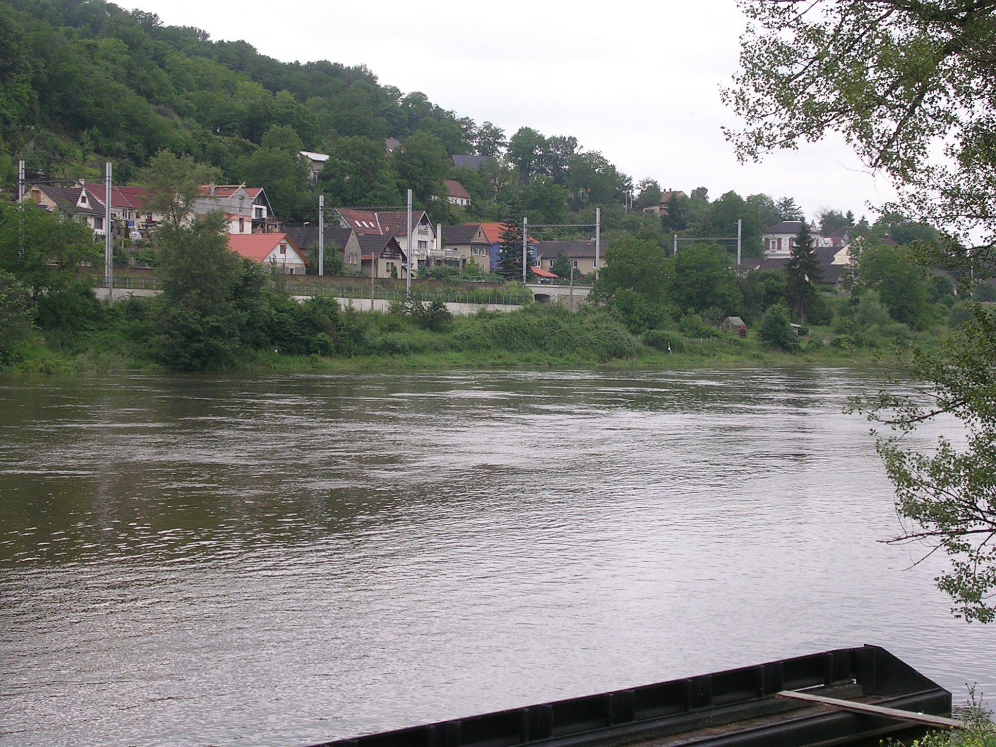 Dolany, Mělník District, Central Bohemian Region, the Czech Republic. - Google Maps - Google Earth